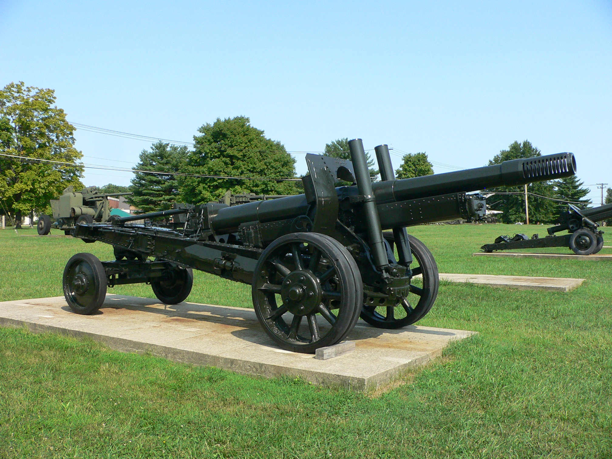 Picture taken by myself, Mark Pellegrini, at the United States Army Ordnance Museum (Aberdeen Proving Ground, MD) on August 14, 2007.